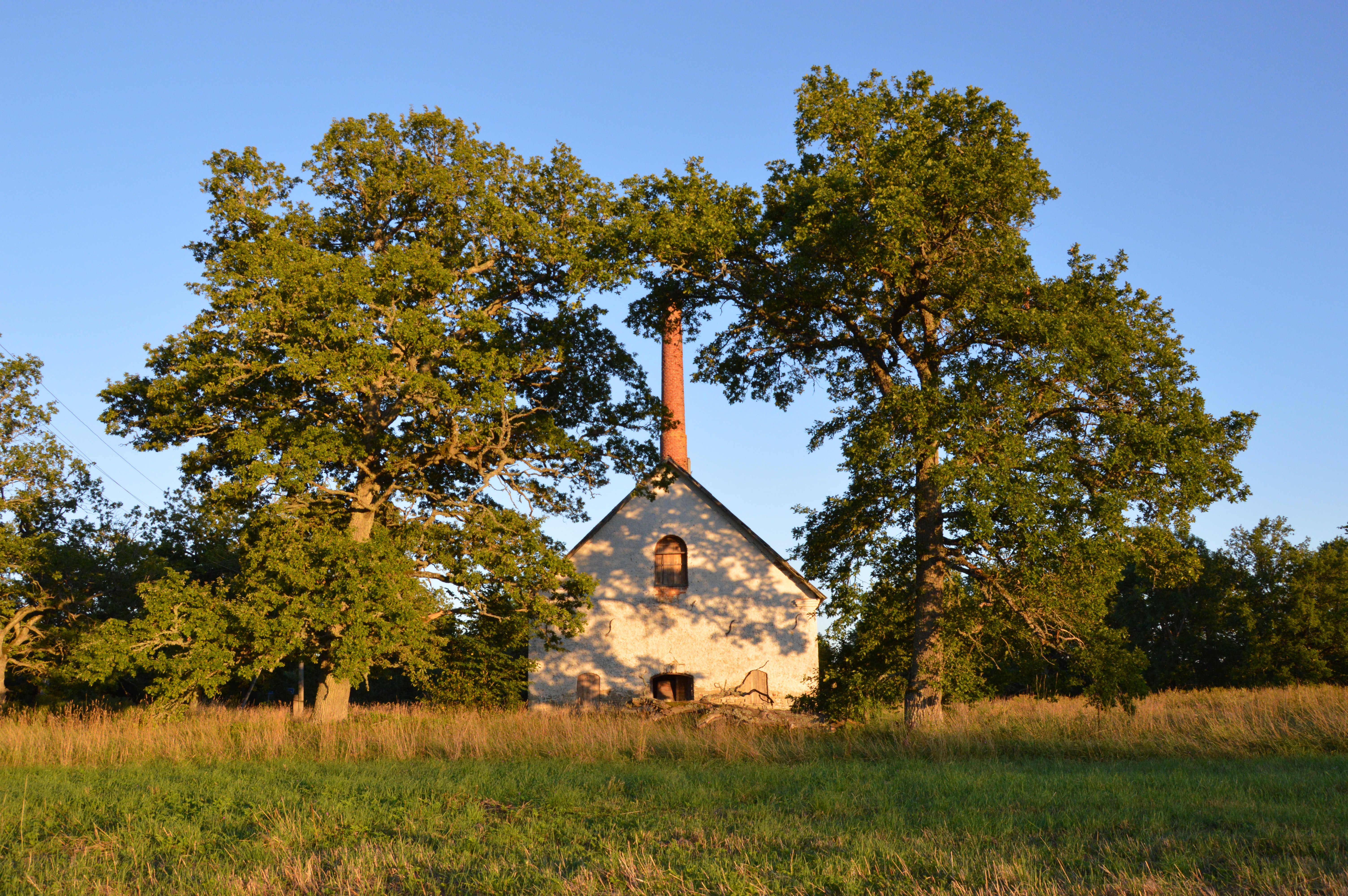 Vana-Vigala manor distillery